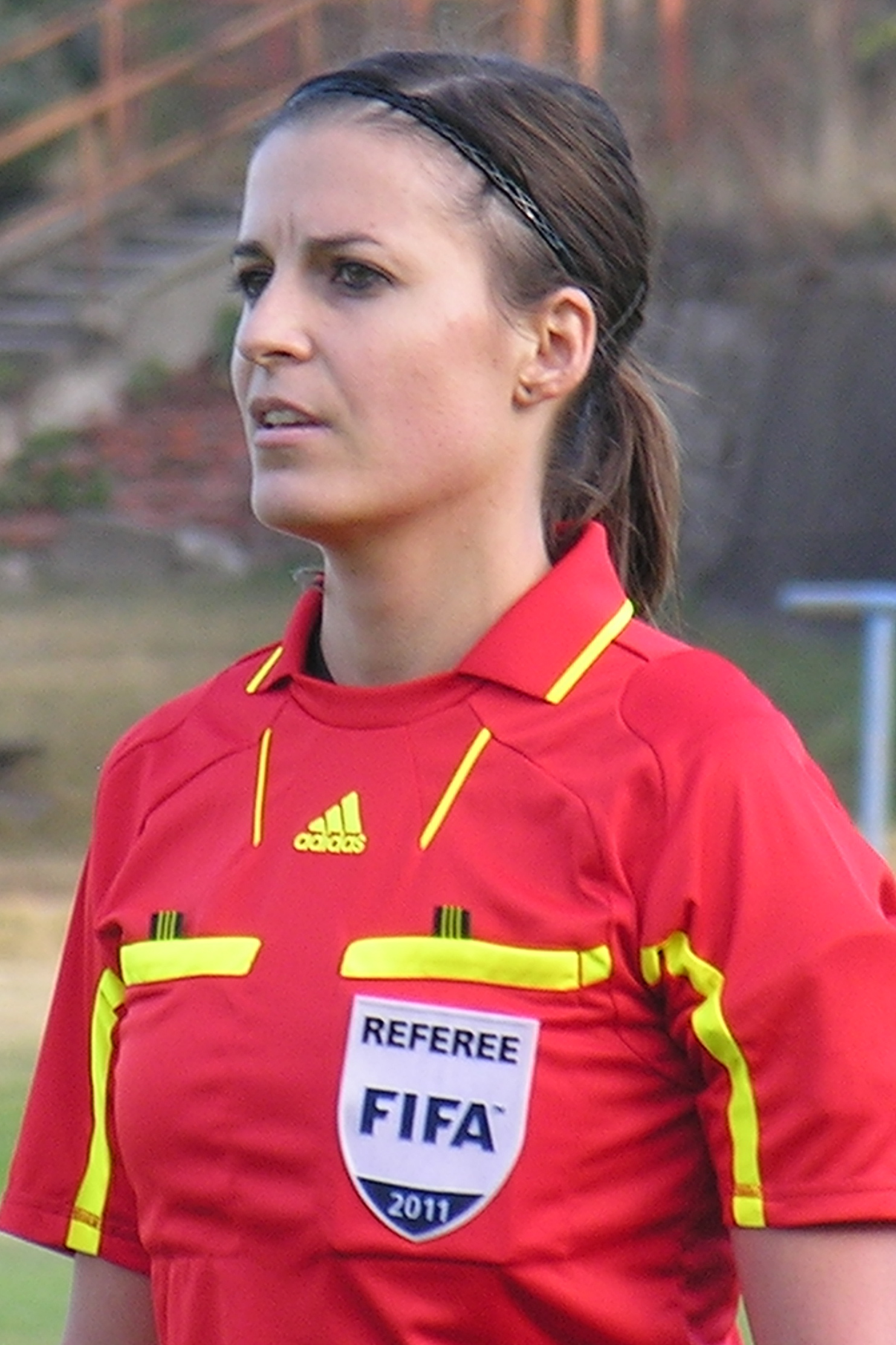 Katalin Kulcsár Hungarian referee Event: MTK-Viktória FC 0-0 in Budapest